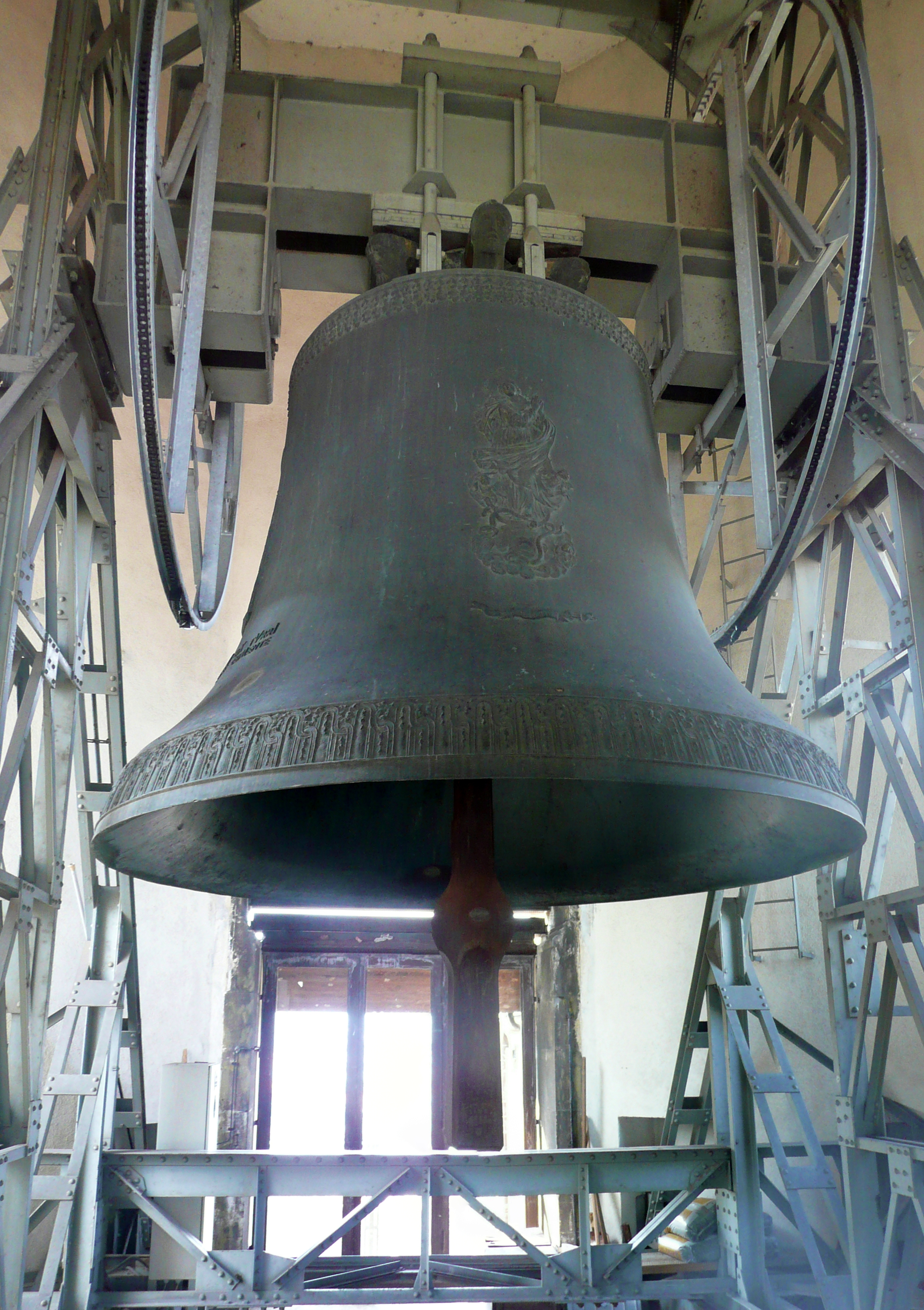 The Pummerin bell, largest one in Austria, at St. Stephen's Cathedral in Vienna. It was cast by the canon-balls of the invading Turks in the 17th century. The bell weighs over 20 tons and rings only for New Year's and other special occasions. This side is from the northeast.